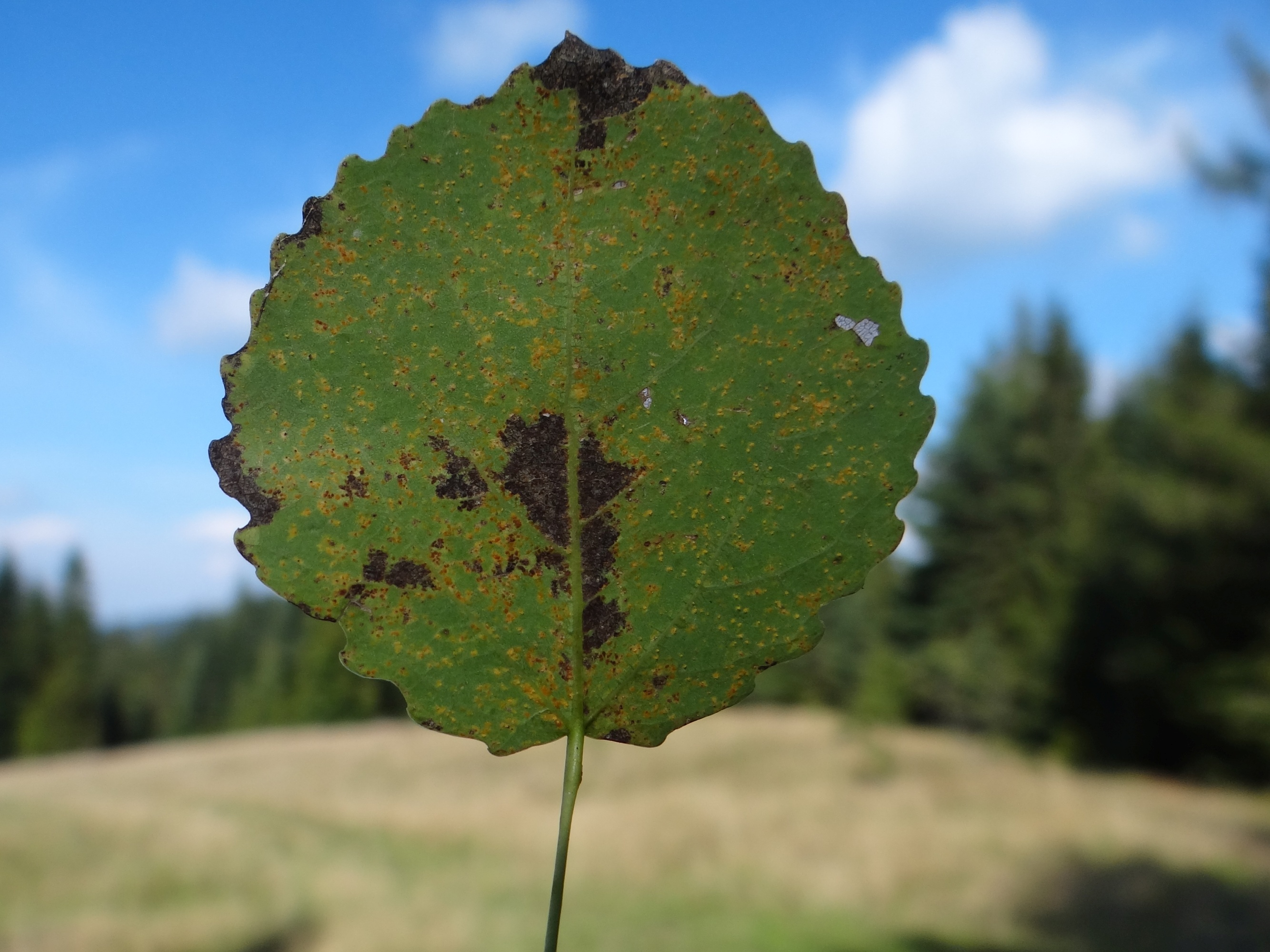 Melampsora populnea on Populus tremula (location: Poland, Beskid Wyspowy, Kobylica)